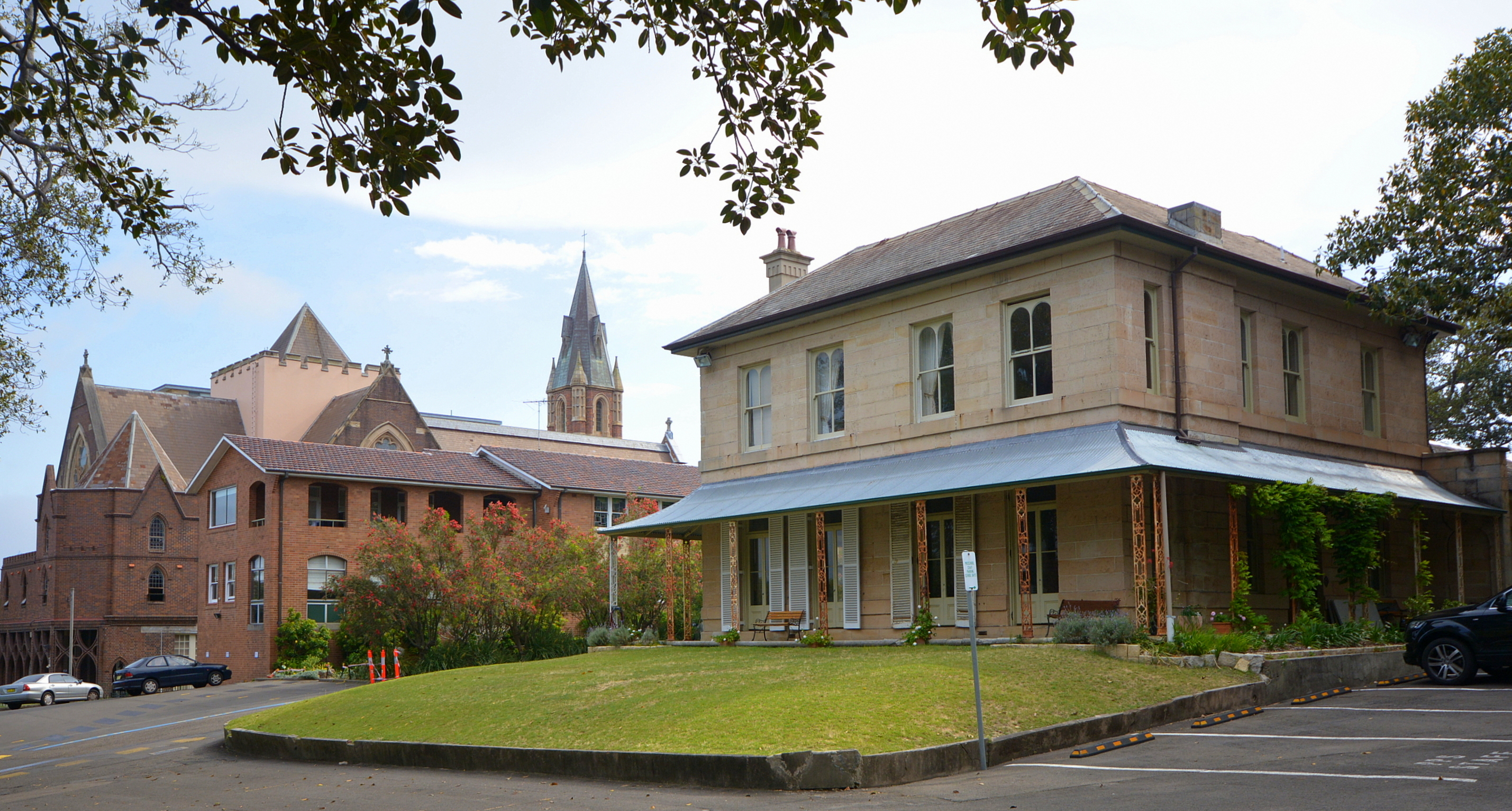 house, Randwick, Sydney